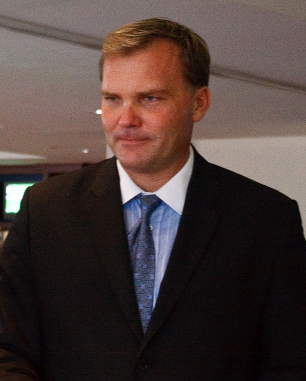 An image of American football quarterback Scott Zolak in 2009.